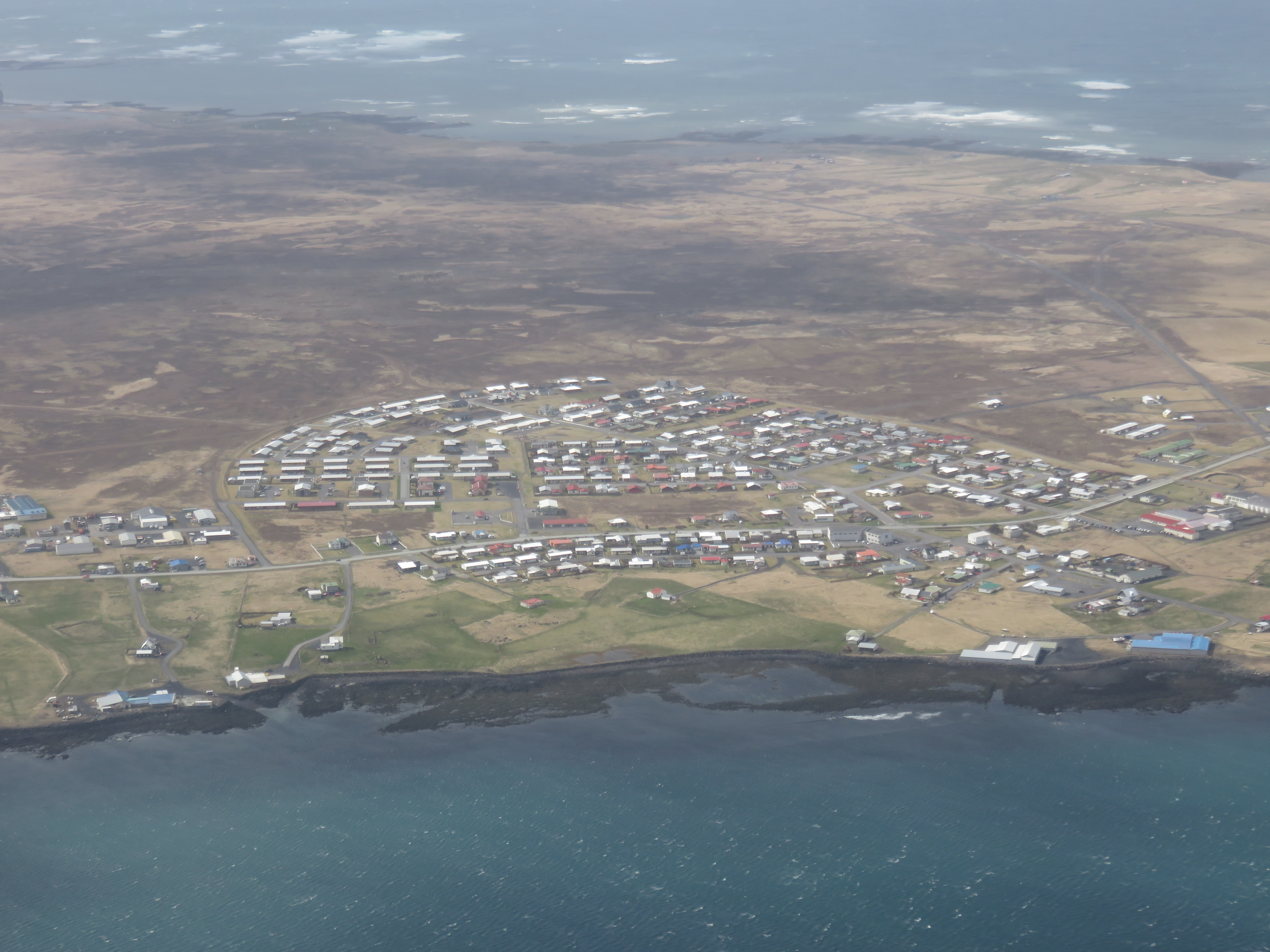 Aerial view of Garður, Iceland in 2018